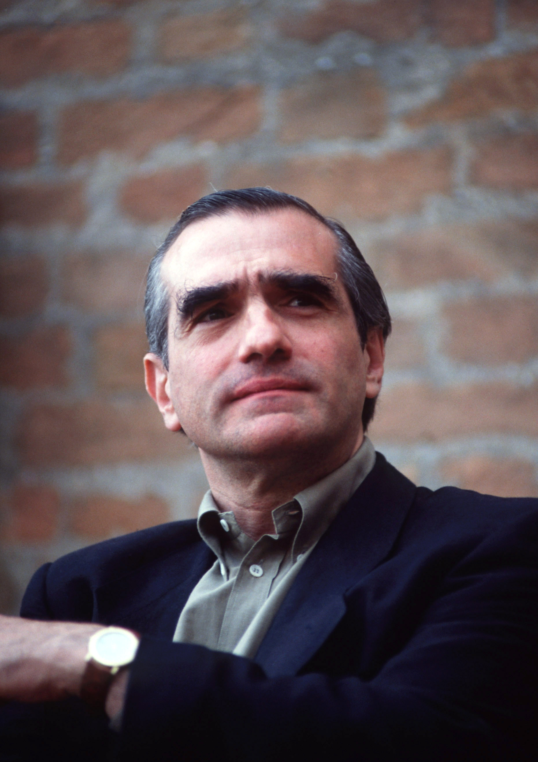 Martin Scorsese, 1995